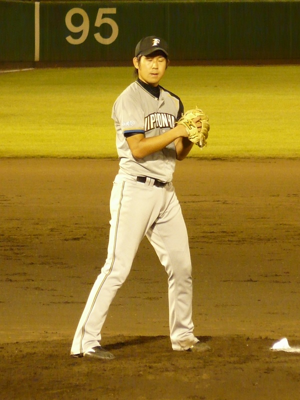 NF-Hideki-Sunaga20090826